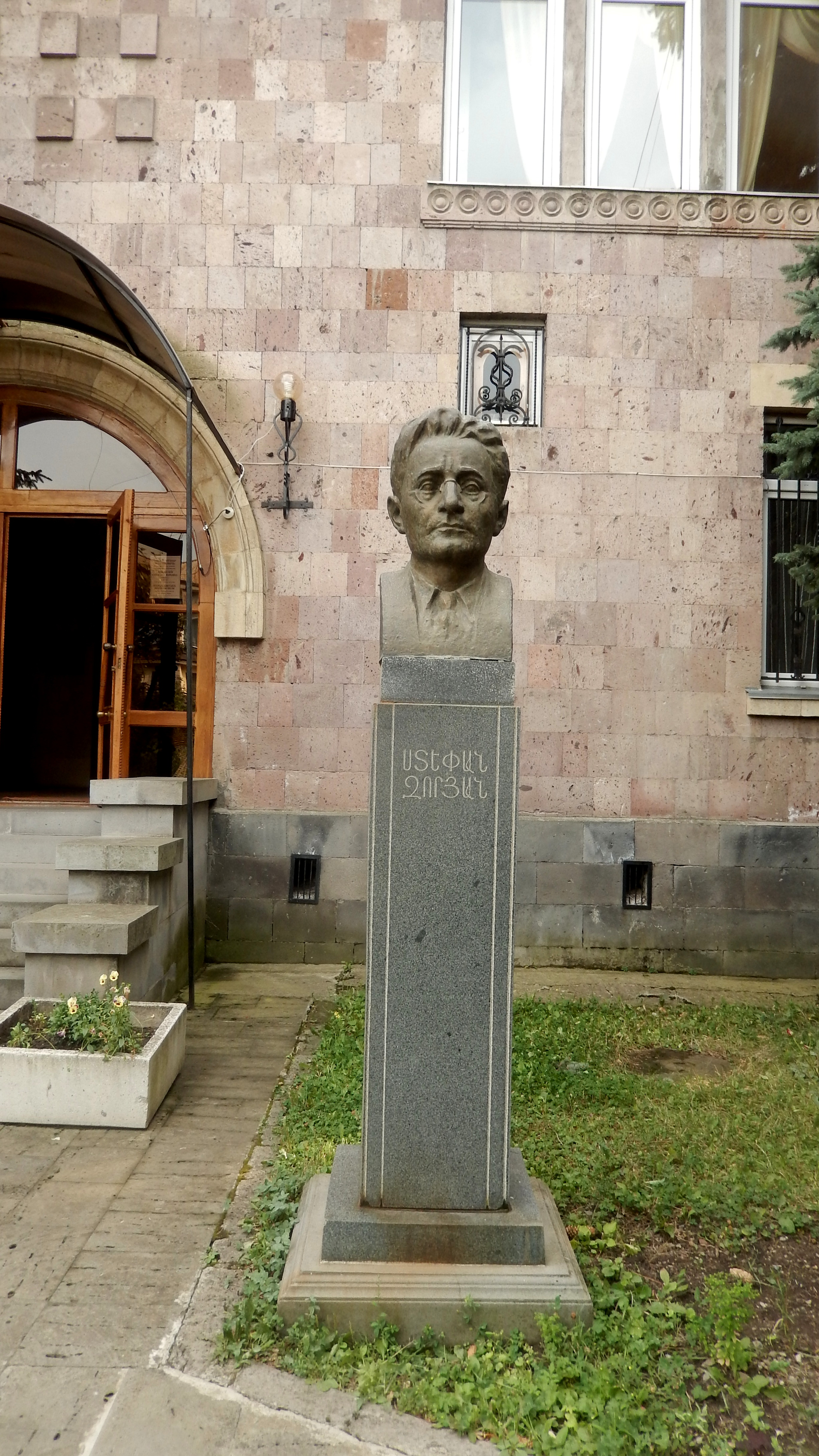 Stepan Zoryan Museum, Vanadzor